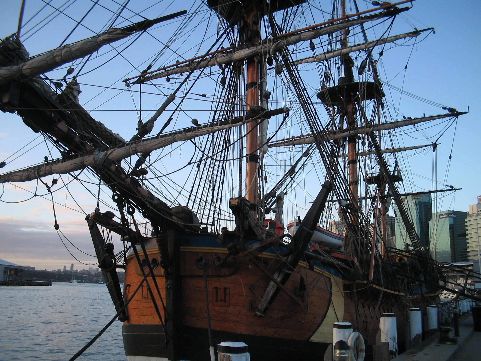 Endeavour Replica rigging detail at Darling Harbour, Sydney